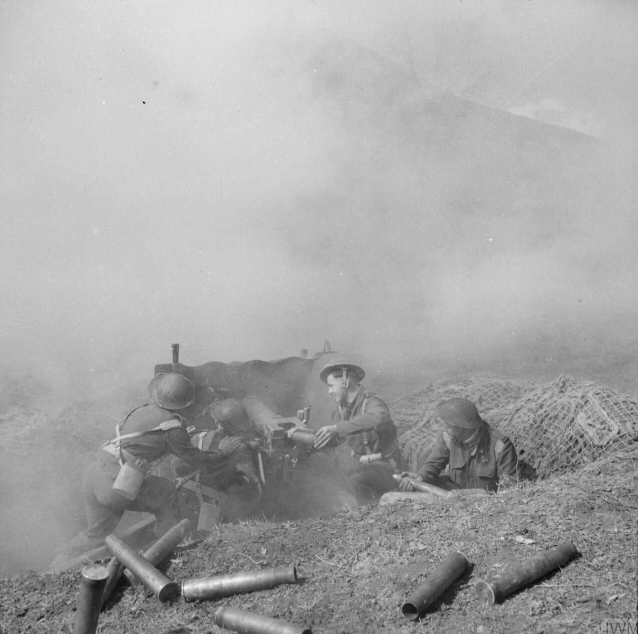 Commonwealth Forces in Italy 1944 A New Zealand 6-pdr anti-tank gun in action against enemy positions at Cassino, 15 March 1944.